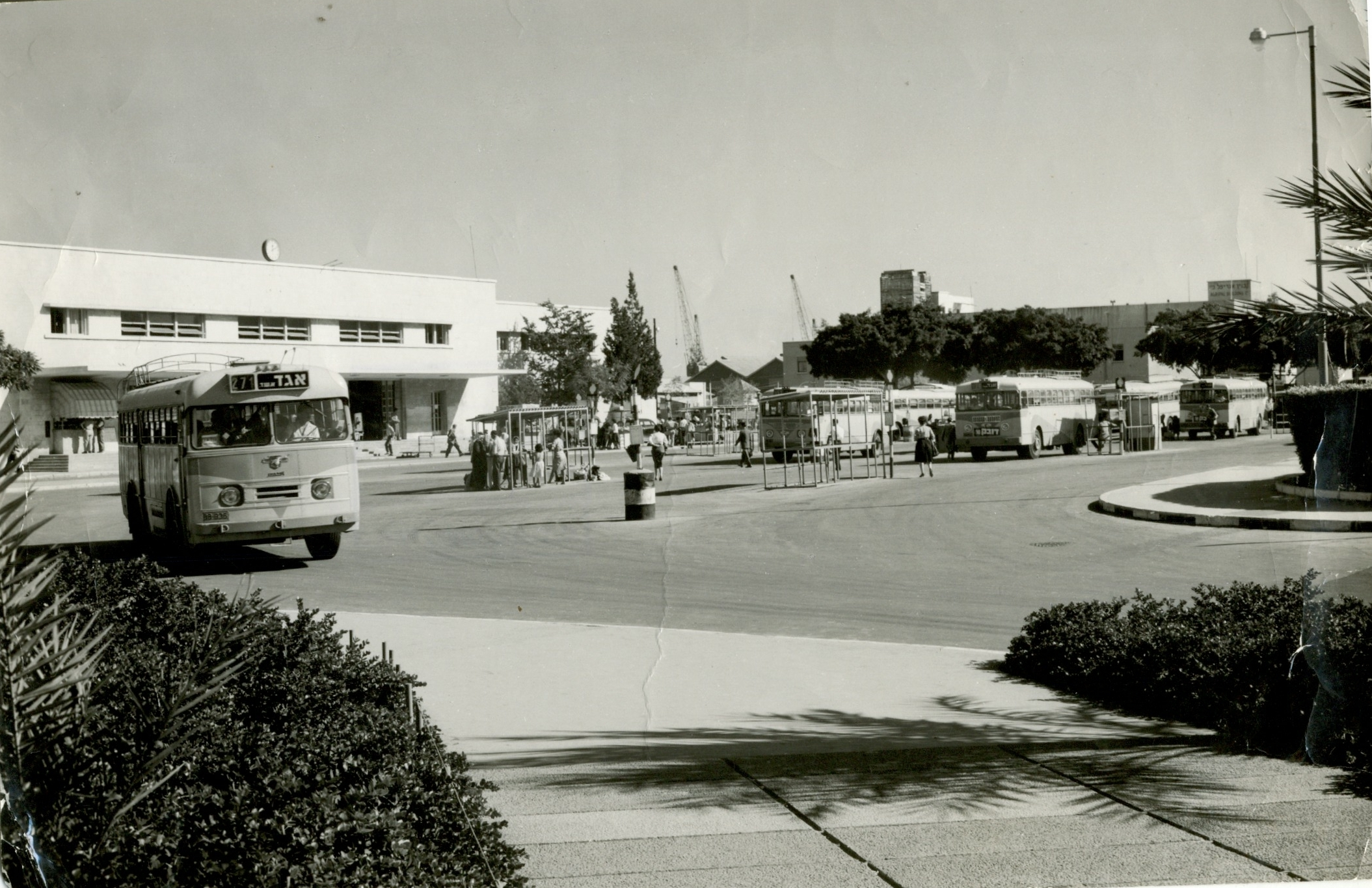 Transport in Israel